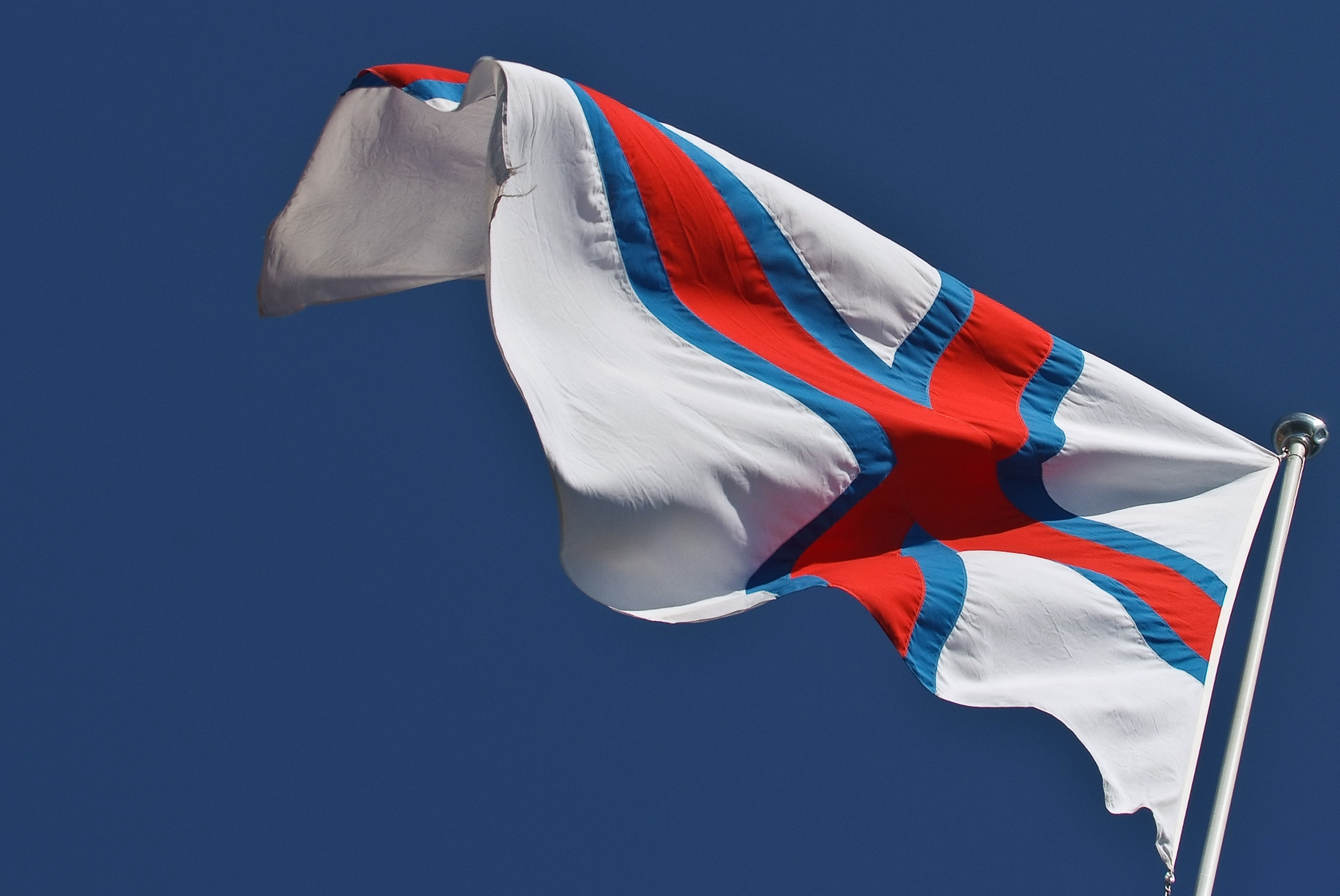 Flag of the Faroe Islands